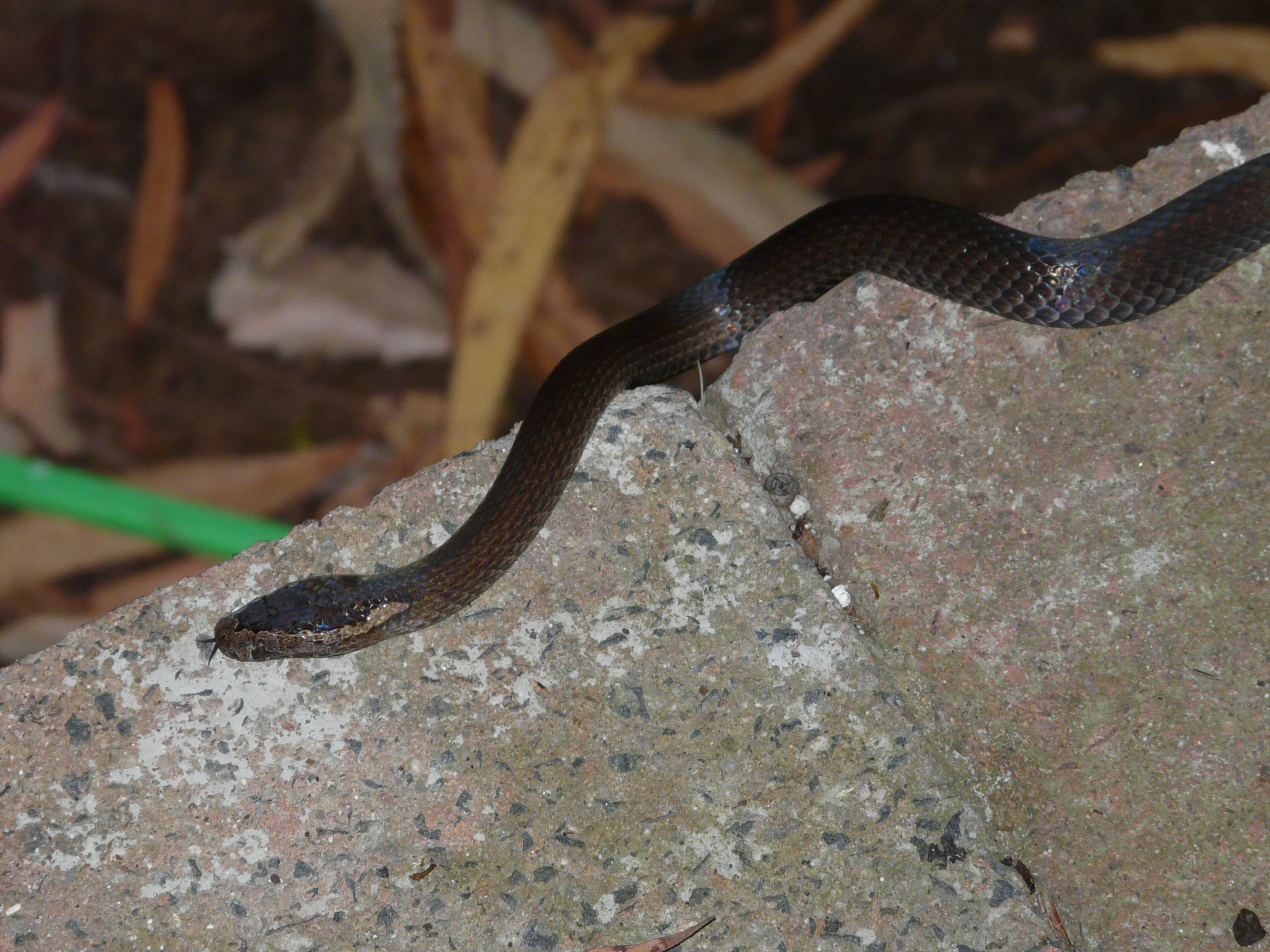 Golden-crowned snake Cacophis squamulosus found on a path in Berowra, NSW.